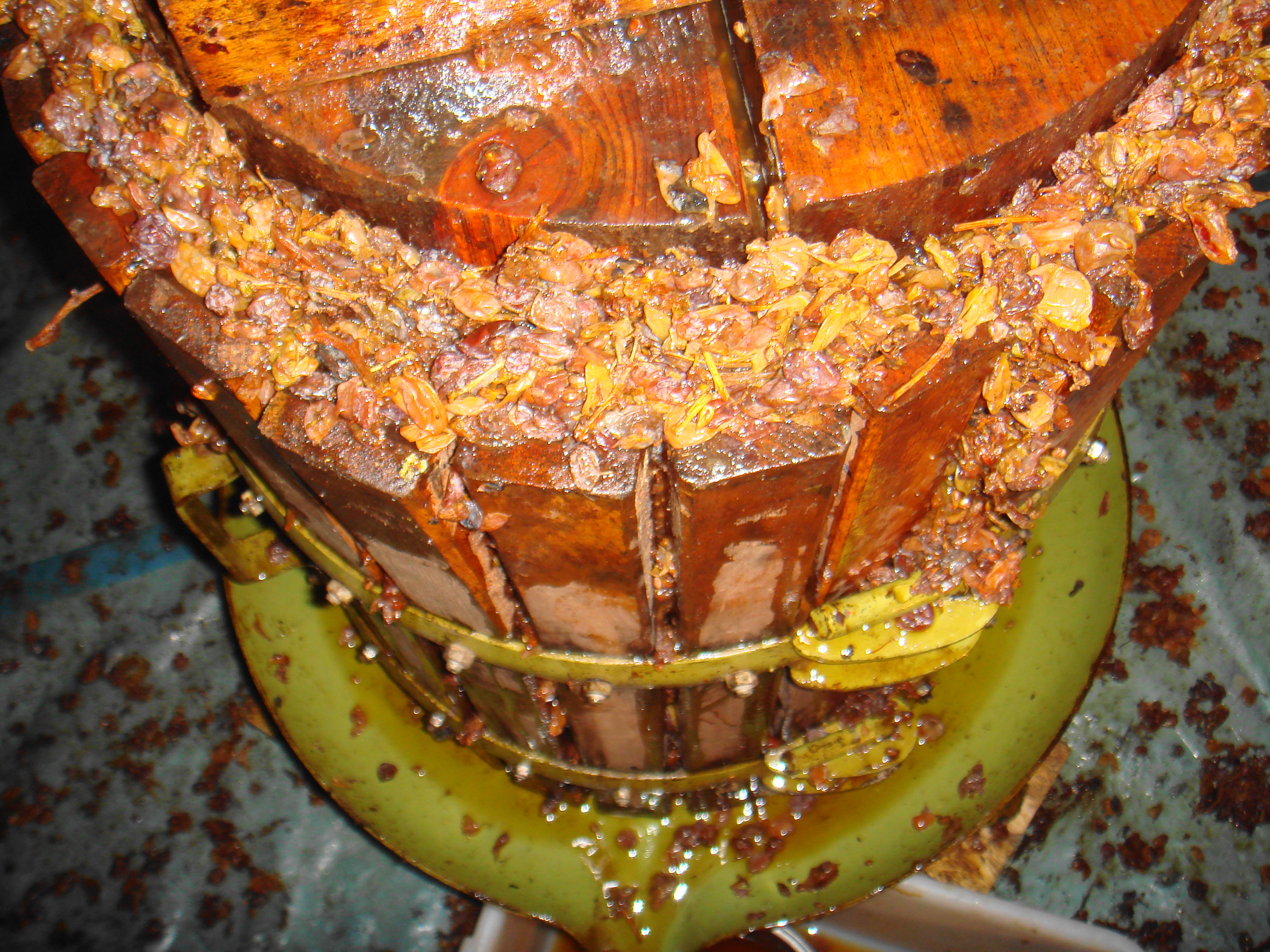 A basket press being used to squeeze the highly concentrated syrup like juice from the raisin grapes that have been dried either on the vine or on straw mats to produce the Italian wine Vin Santo.